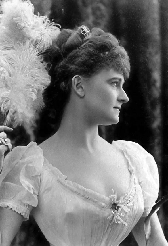 A late 1880s photograph by Lafayette (1853-1923) of Frances Evelyn Maynard, "Daisy Greville", Countess of Warwick, (1861-1938), wife to Francis Greville, Lord Brooke. Daisy Greville, sole beneficiary of the Maynard fortune, and of Easton Lodge, Little Easton, Essex, was an English courtesan and socialite, later turned champagne socialist.